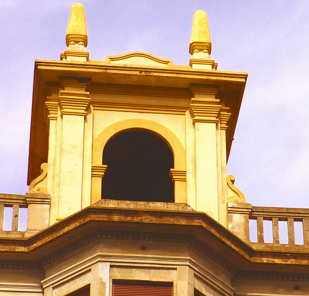 Torreón Círculo de la Unión, Paseo del Espolón, Burgos, España.